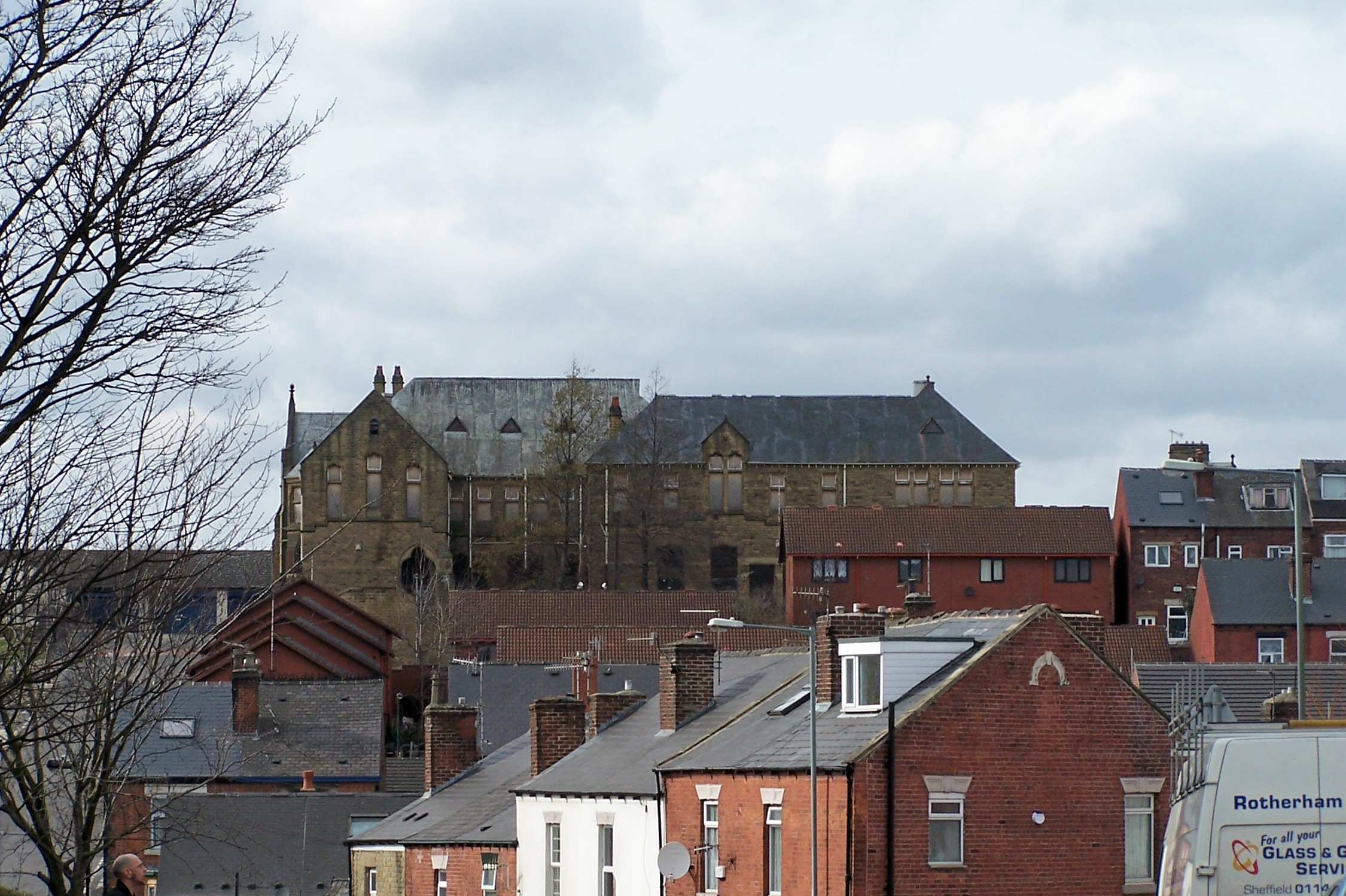 Pye Bank School (former), from Andover Street, Burngreave, Sheffield. Viewed from close to the 'replacement' Pye Bank School. For more views of the former school see ... 1738326